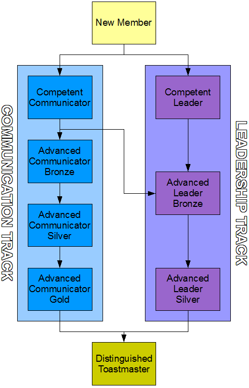 A graph showing the progression of awards for members of Toastmasters International.